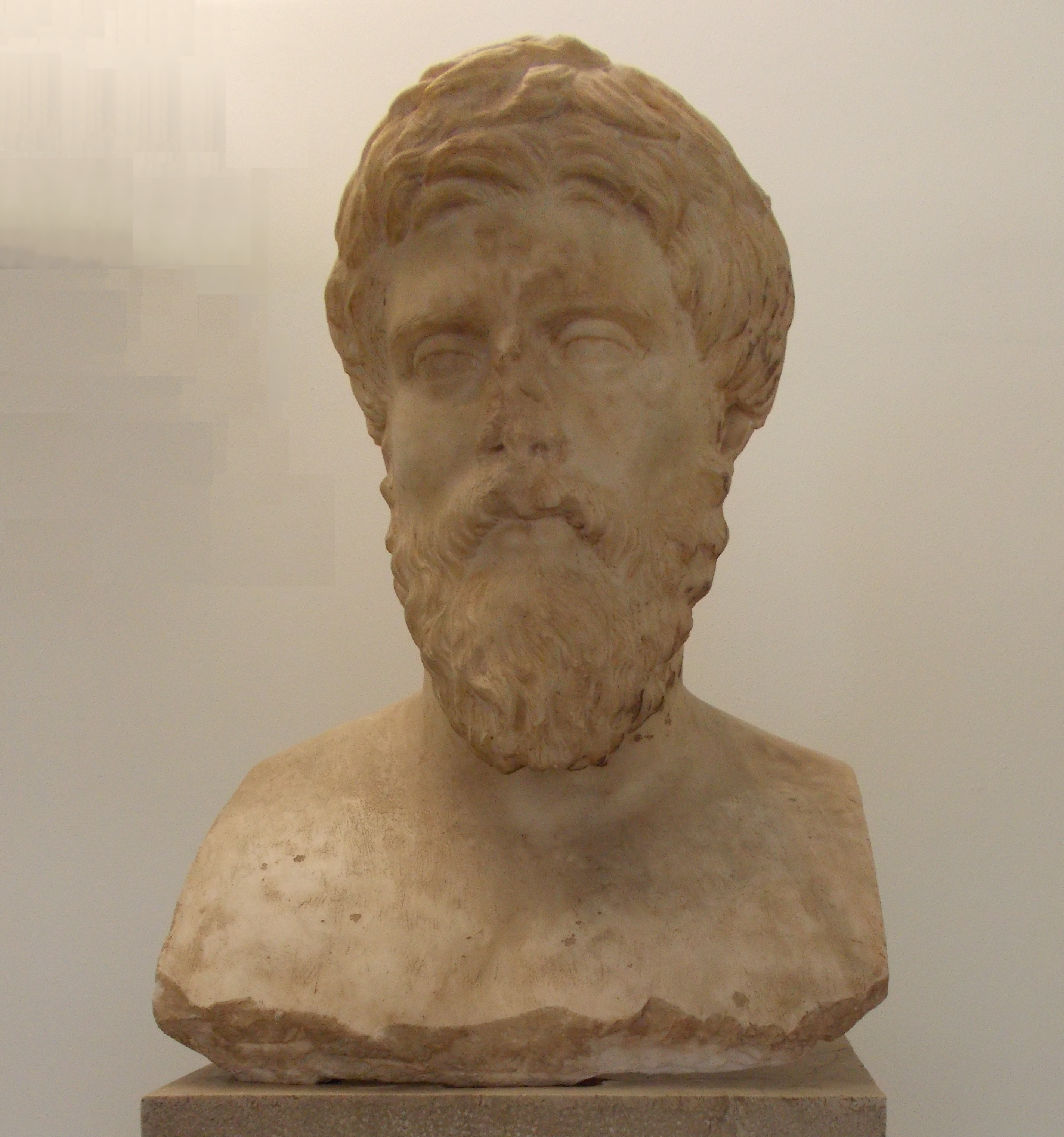 Bust believed to represent the Greek historian, biographer and essayist Plutarch. It is carved in Parian marble, dated to the 2nd or 3rd century AD. It is displayed in room XIV of the Archaeological Museum of Delphi, next to a herm with an engraved inscription that reads: ΔΕΛΦΟΙ ΧΑΙΡΩΝΕΥΣΙ ΝΟΜΟΥ ΠΛΟΥΤΑΡΧΟΝ ΕΘΗΚΑΝ ΤΟΙΣ ΑΜΦΙΚΤΙΟΝΩΝ ΔΕΛΦΟΙΣ ΠΕΙΘΟΜΕΝΟΙ (This votive with the bust of Plutarch was set up by the people of Delphi and the citizens of Chearonea in honour of the great author and priest of Apollo). The bust and the herm were both uncovered near the southeast corner of the Temple of Apollo at Delphi. A present day copy with the inscription ΠΛΟΥΤΑΡΧΟΣ is located at Chaeronia, Plutarch's home town. It has been suggested that it could represent another philosopher of the Neoplatonist school. Delphi Archaeological Museum LocationDelfi Municipality , GreeceCoordinates38° 28′ 49.06″ N, 22° 29′ 59.42″ E Established1903 Web Authority control : Q636928 VIAF: 145993304 ULAN: 500306710 LCCN: n85090983 GND: 5245755-2 SUDOC: 031077560 WorldCat institution QS:P195,Q636928